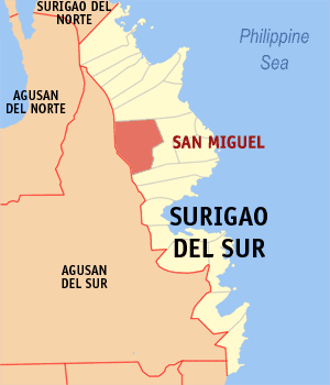 Map of the Surigao del Sur showing the location of San Manuel